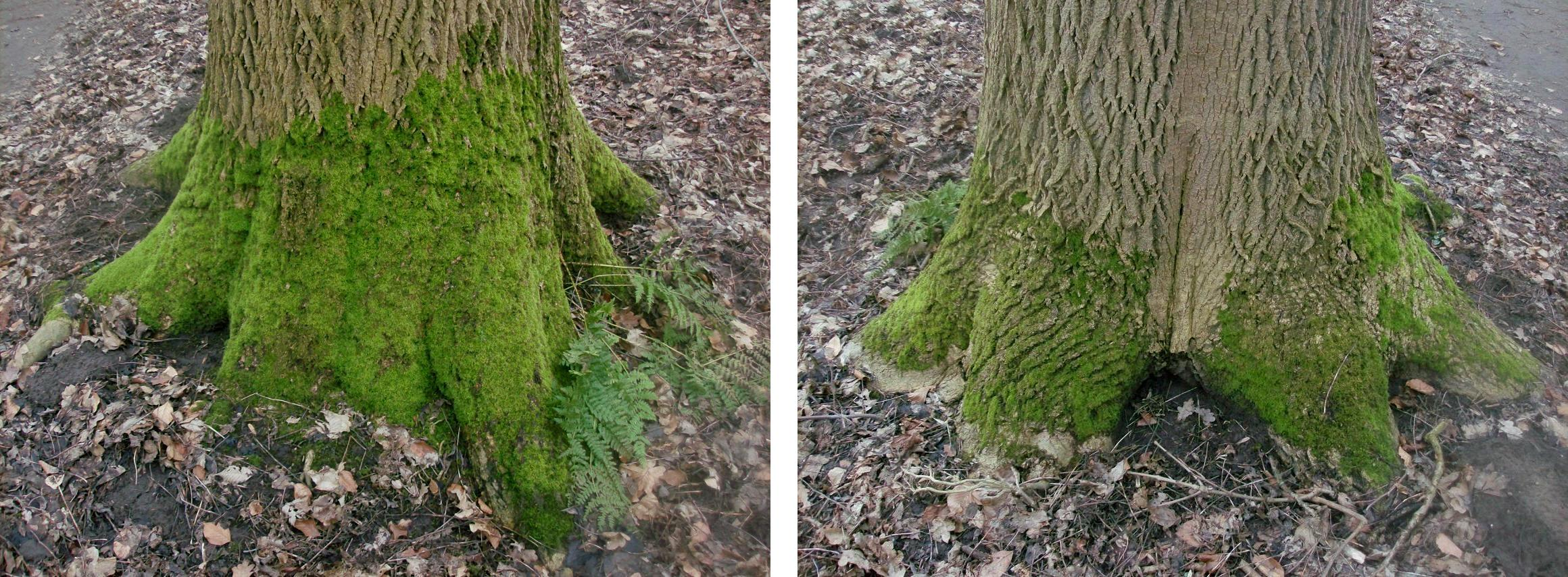 The moss on a tree trunk is NOT often an indicator of direction. In the northern hemisphere the northern side of the trunk (left picture) is more shadowy and therefore: damp. Dampness favours the growth of mosses. The southern side of the same trunk (right) is sunnier and drier and has less moss.